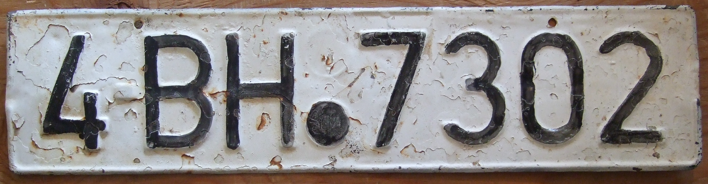 Old Romanian license plate from Bihor